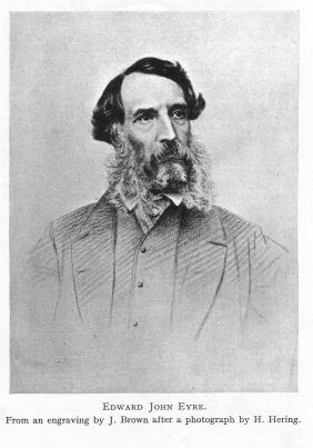 Edward John Eyre (1815-1901), English explorer